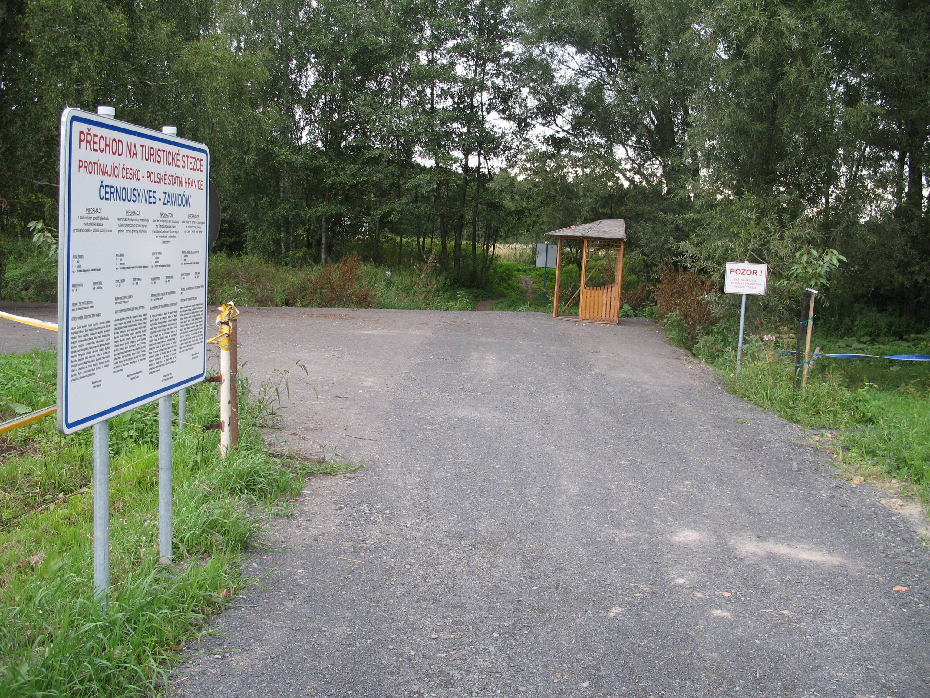 Czech–Polish order crossing Ves/Zawidów